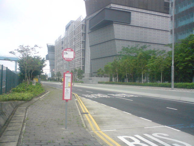 The bus stop of 274P in Science Park